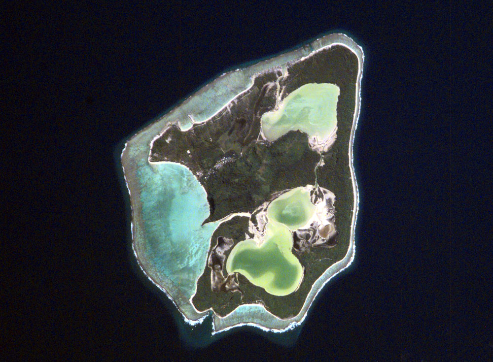 NASA astronaut image of Maiao Island, Society Islands, French Polynesia